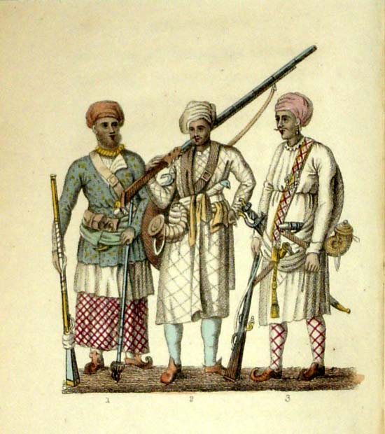 Handcoloured engravings by Frederic Shoberl from his work 'The World in Miniature: Hindoostan'. London: R. Ackerman, 1820's.